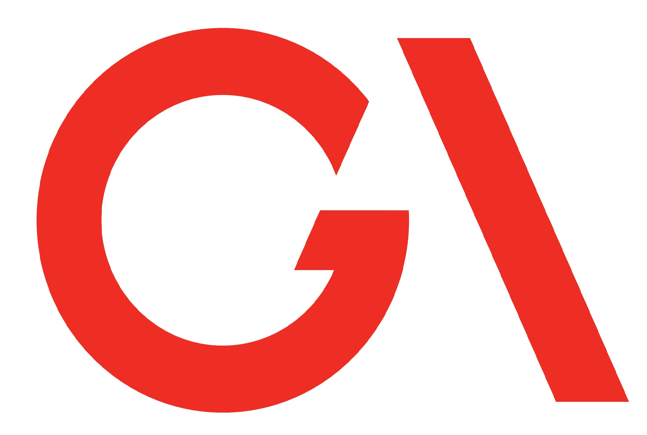 The Geneva Association Logo